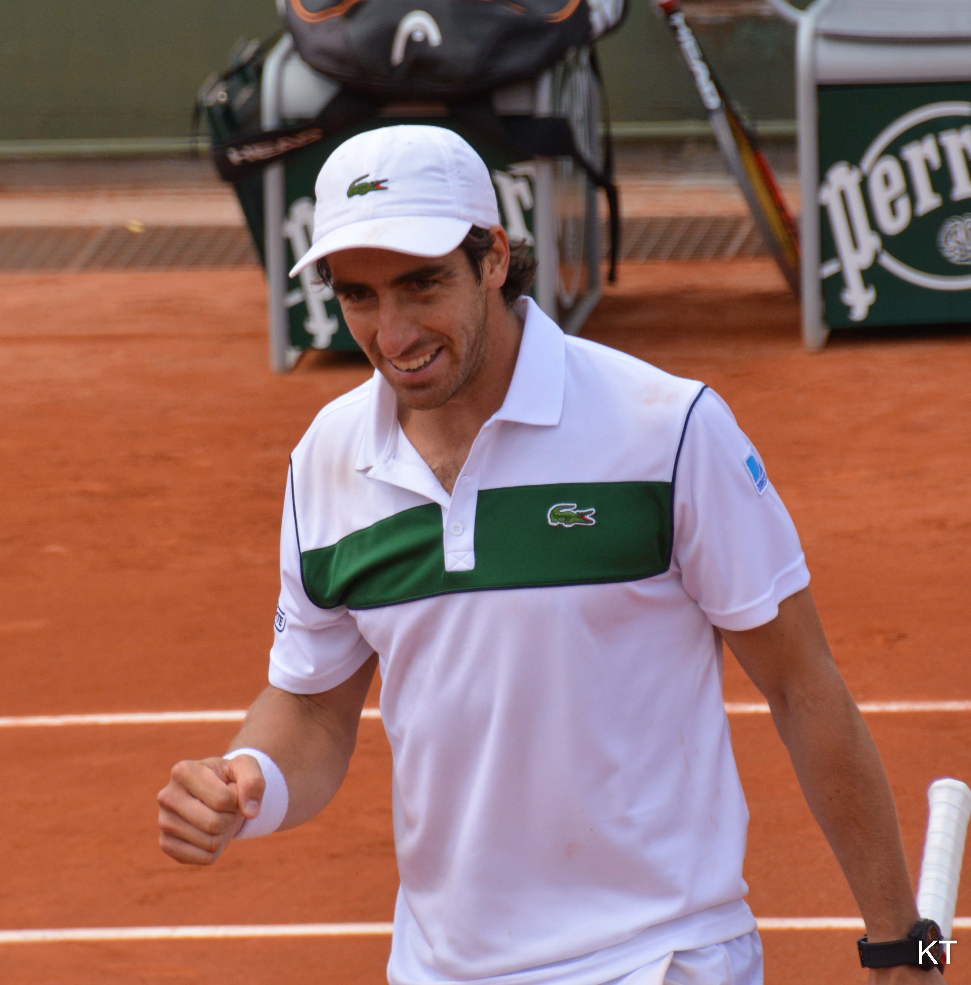 Pablo Cuevas wins his first round match with Sam Groth 6-7, 6-3, 6-3, 6-3. Day 2 of Roland Garros 2015.